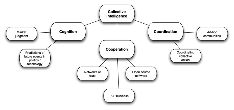 The diagram is based on the types and examples of collective intelligence discussed in the books 'The wisdom of crowds' and 'Smart mobs'